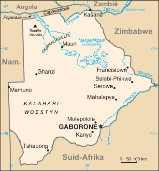 An Afrikaans map of Botswana.